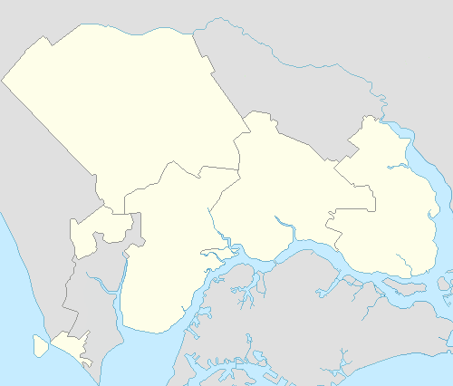 Political map of Iskandar Malaysia, which covers five local government areas in southern Johor. Geographic limits of the map: N: 1.844° N S: 1.2678° N W: 103.3607° E E: 104.0343° E